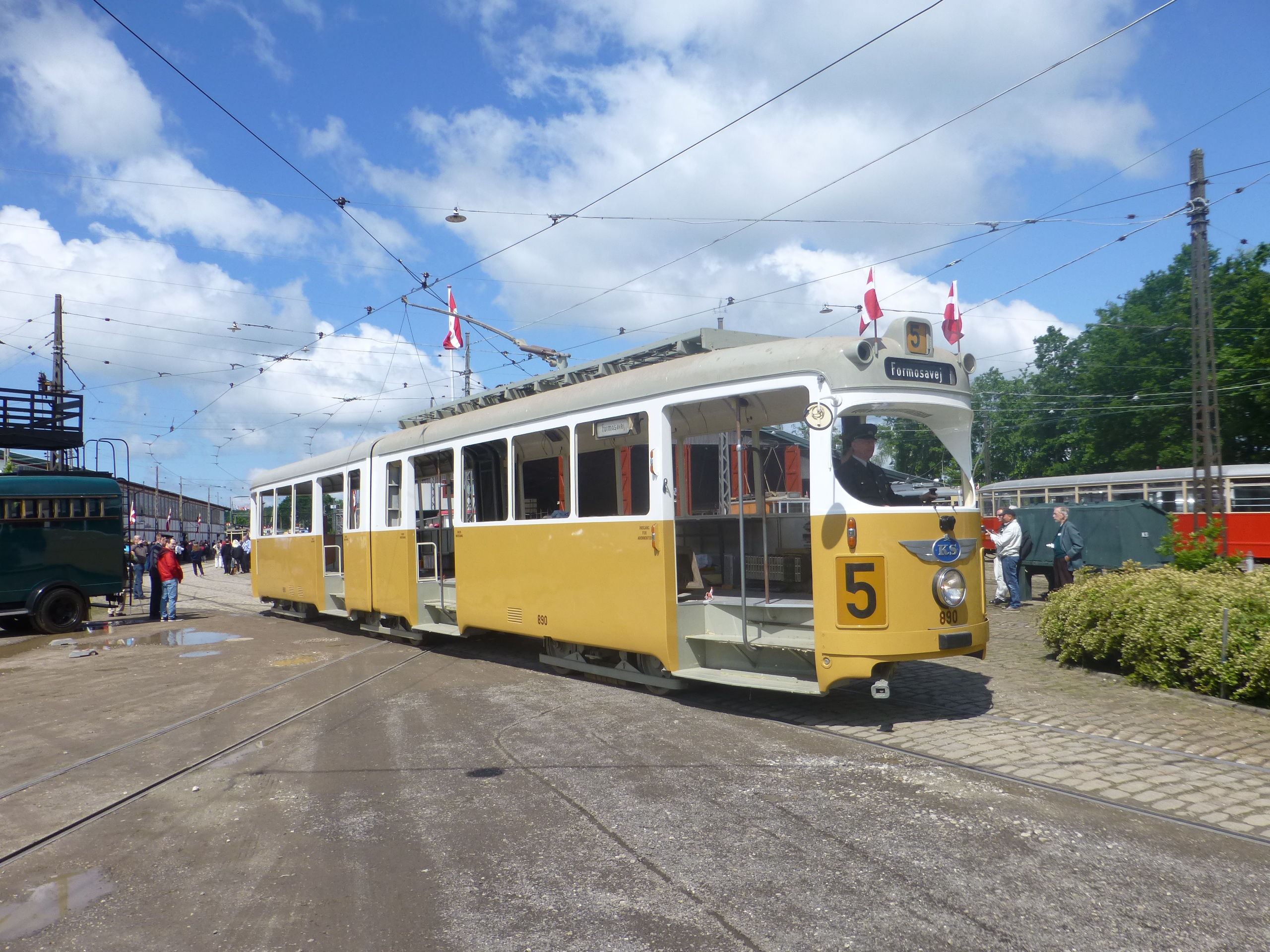 Tram parade at Sporvejsmuseet Skjoldenæsholm due to celebrating of 50 years of the Danish tramway society, Sporvejshistorisk Selskab. Tram from Copenhagen, KS 890 from 1966.